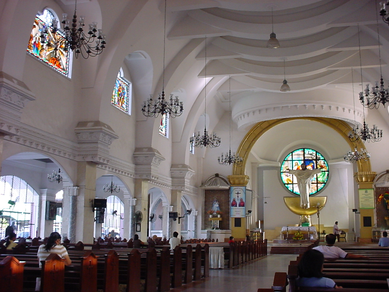 Interior of St. Michael's Cathedral in Iligan, Mindanao.